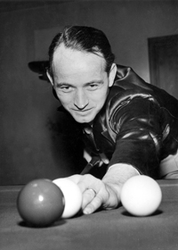 German carom billiards player